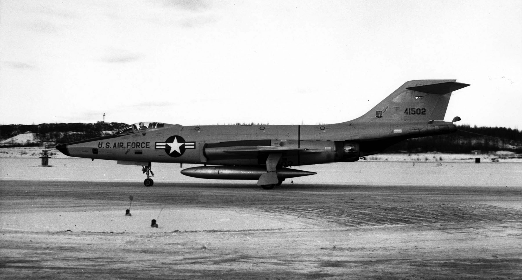 A U.S. Air Force McDonnell RF-101A-25-MC (S/N 54-1502) of the 29th Tactical Reconnaissance Squadron, Shaw Air Force Base, South Carolina (USA). The photo was taken in January 1964 at Elmendorf Air Force Base, Alaska.